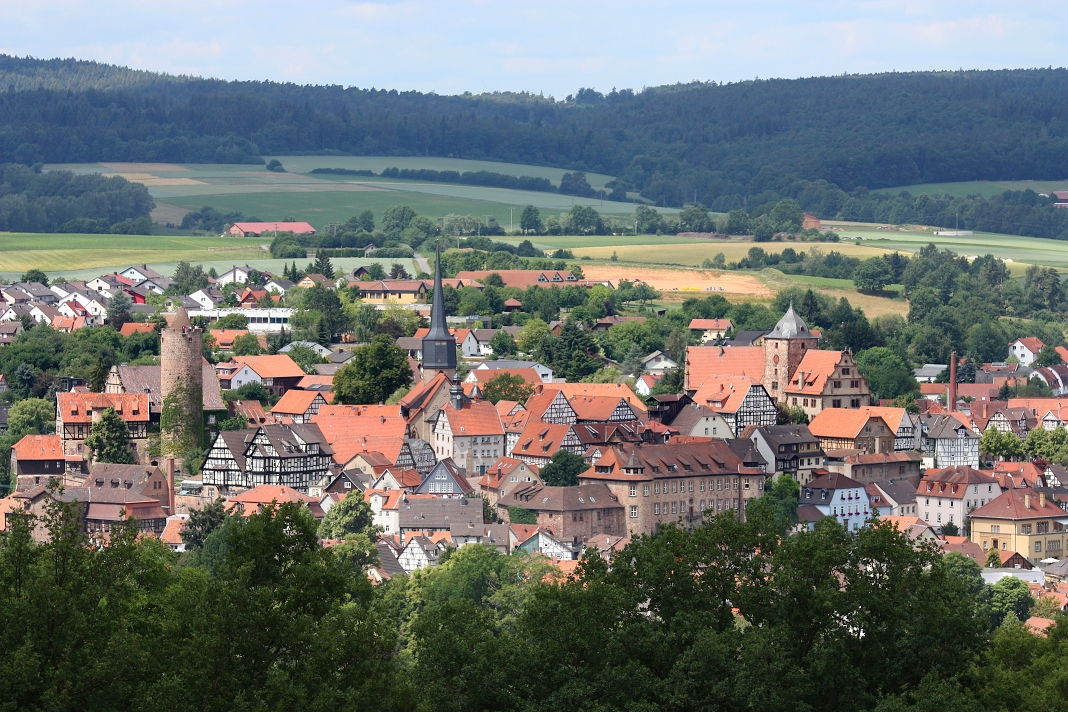 Schlitz (district Vogelsbergkreis), view of the historic city centre